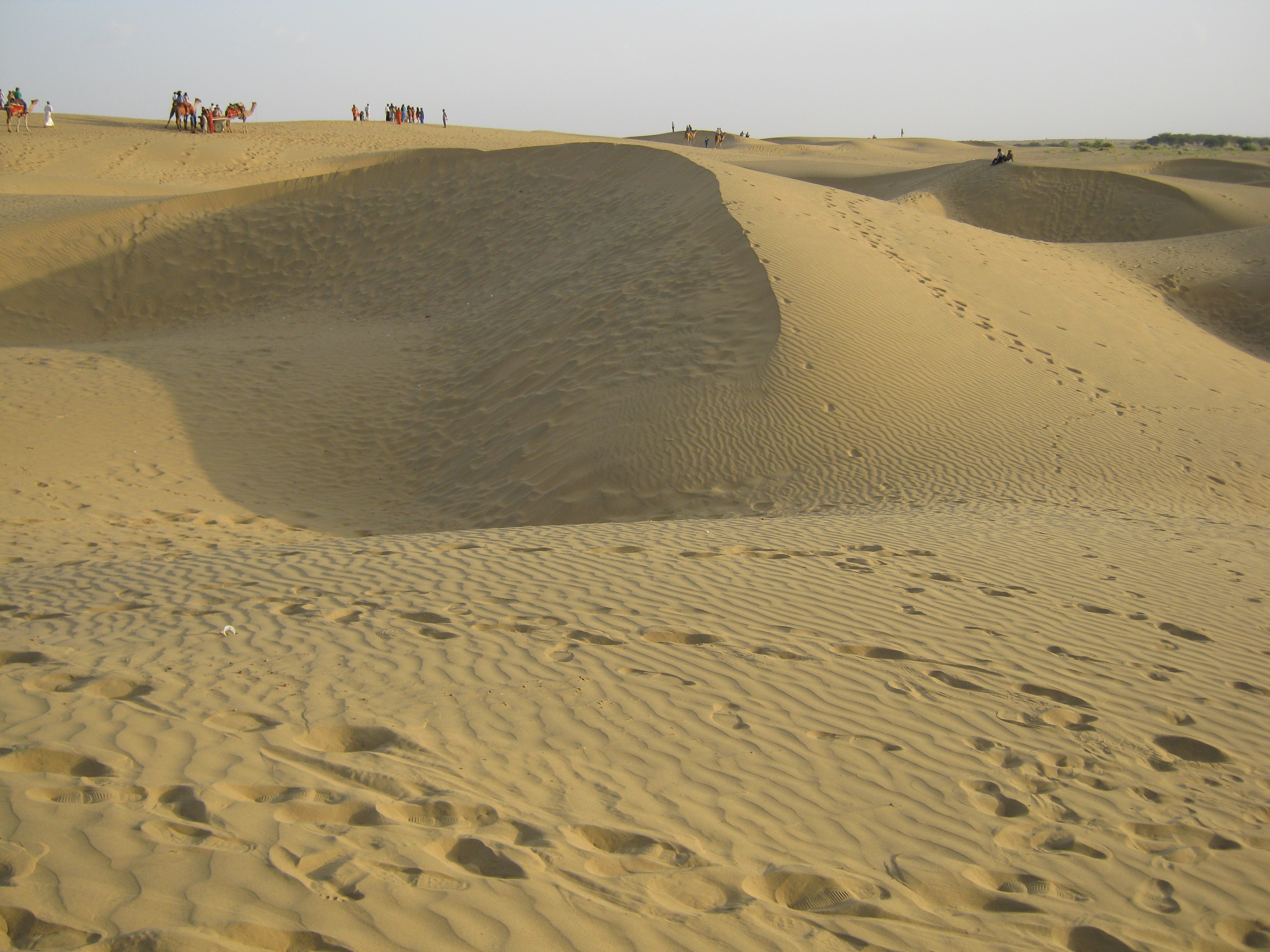 A view of sand dunes of Thar desert in dist.-Bikaner,state-Rajasthan in India.